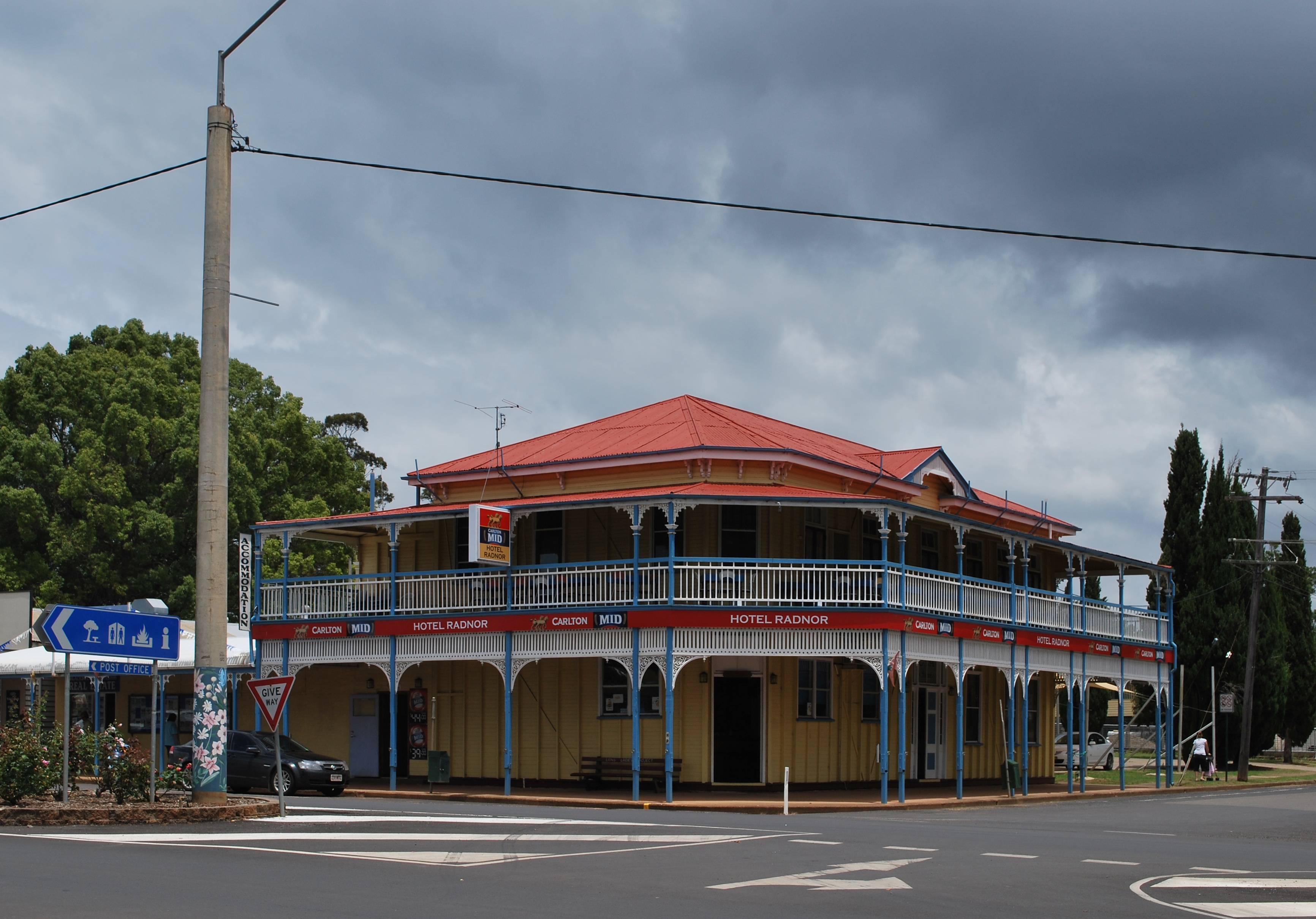 Hotel Radnor at Blackbutt, Quensland